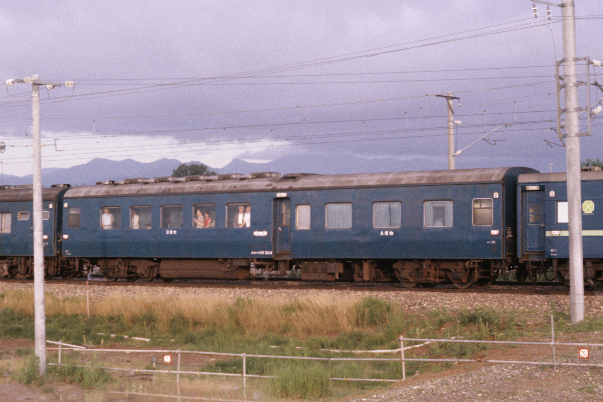 The Japanese National Railways 1st and 2nd class sleeping car Orohane10-504 linked in the night express RISHIRI bound for Sapporo running nearby Atsubetsu.